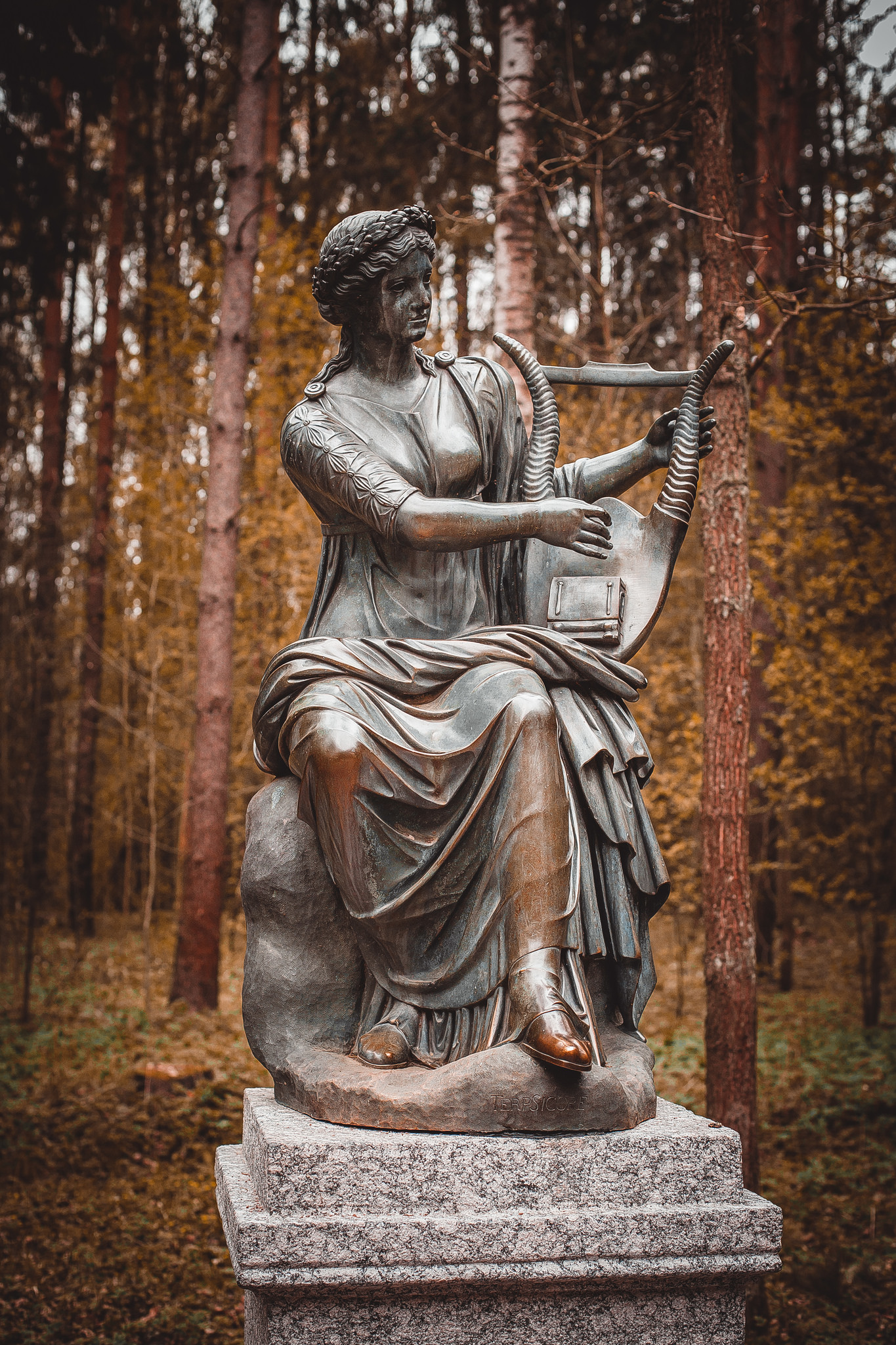 Terpsichore (muse of dancing) The Pavlovsk Park Twelve Paths at Old Silvia Apollo and the muses